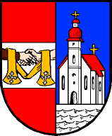 Source: "Fahnen-Gärtner GmbH, Mittersill" This file depicts a coat of arms. The composition of coats of arms are generally public domain with respect to copyright laws, and may be reproduced freely. This corresponds to the international traditional usage, and is explicitly stated in some national copyright laws. Some compositions, of more recent origin, may be copyrighted. This is not a valid license as such, being a "public domain" statement for the coat of arms definition only. It must be completed with the copyright tag associated to the picture creation. See Commons:Coats of arms for further information. Please note that this applies only to the coat of arms definition (composition / description). The representation of a coat of arms is an artistic creation, subject as such to copyright laws. Restriction of use - Legal notice: Most of the time, the usage of coats of arms is governed by legal restrictions, independent of the status of the depiction shown here. A coat of arms represents its owner. Though it can be freely represented, it cannot be appropriated, or used in such a way as to create a confusion with or a prejudice to its owner. Usage on Commons: Please provide licence information for the coat of arm representation, information for the author of the picture, and the source if not self-made work.